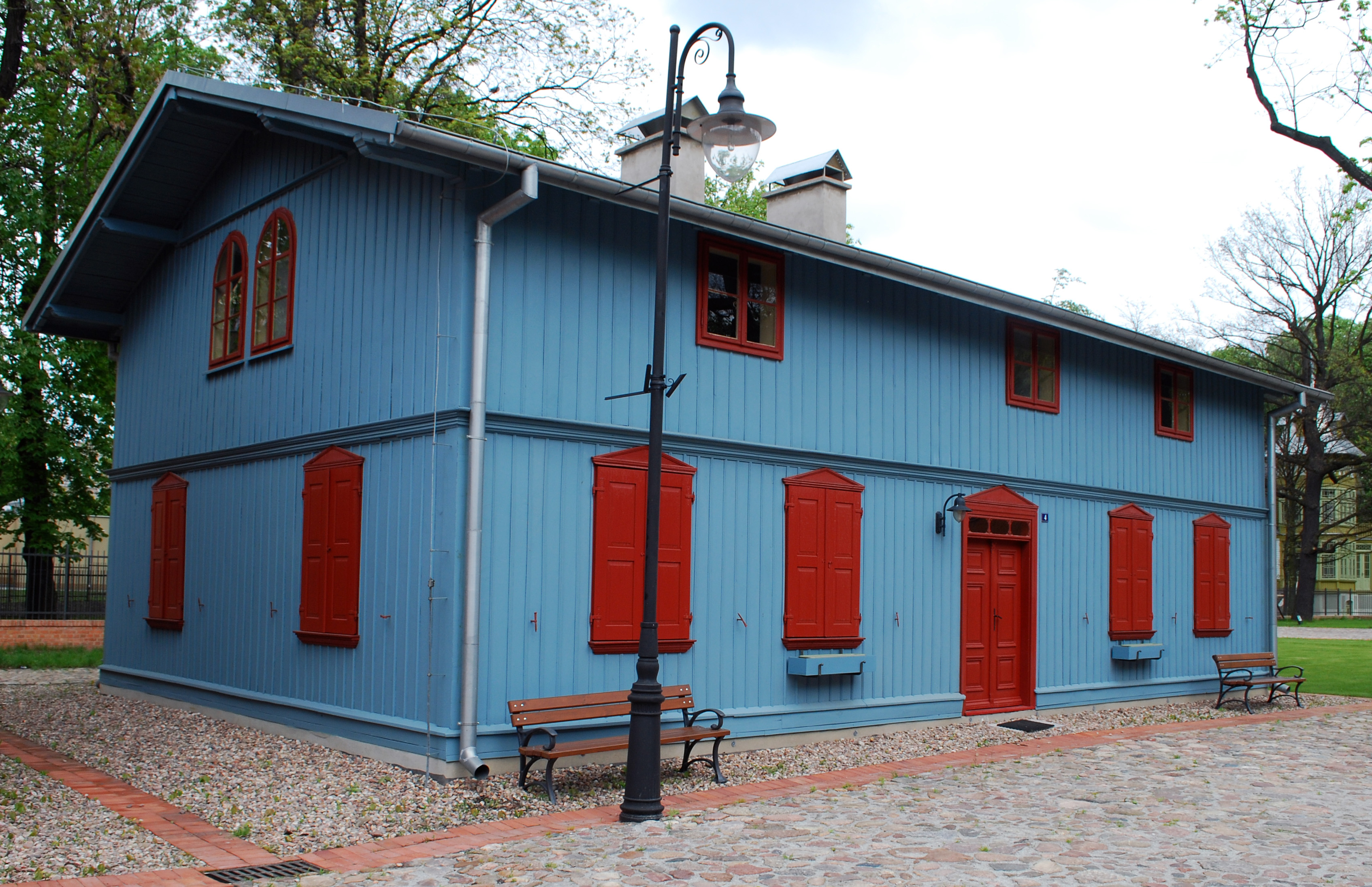 This picture was taken during the photographic wikiworkshop organized by the Association of Wikimedia Poland. All pictures of the workshop you can see in the category wikiwarsztaty 2010. Skansen architektury drewnianej w Łodzi - niebieski dom szwacza